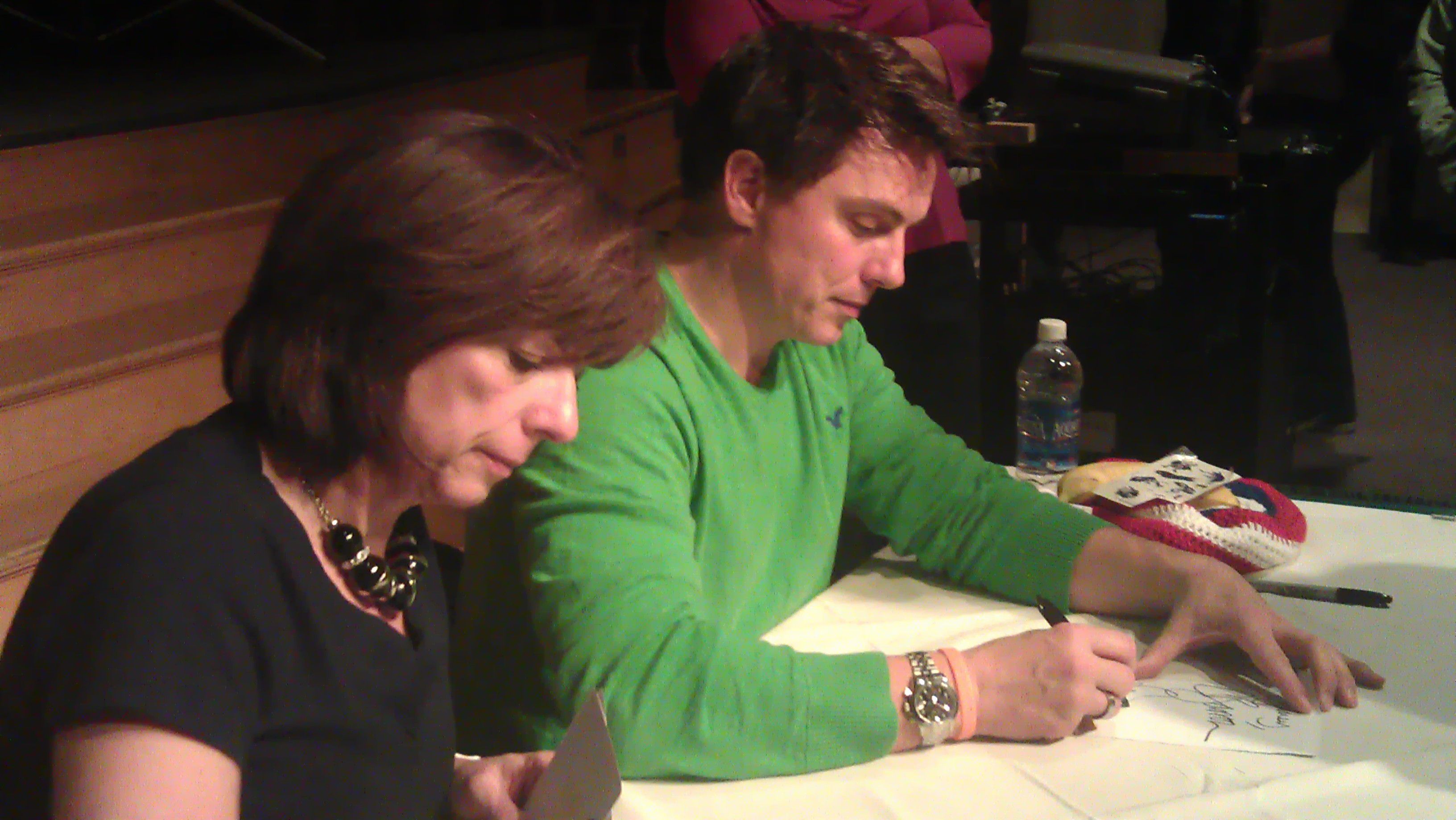 Carole and John Barrowman at a book signing of Hollow Earth at Alverno College in Milwaukee, Wisconsin.